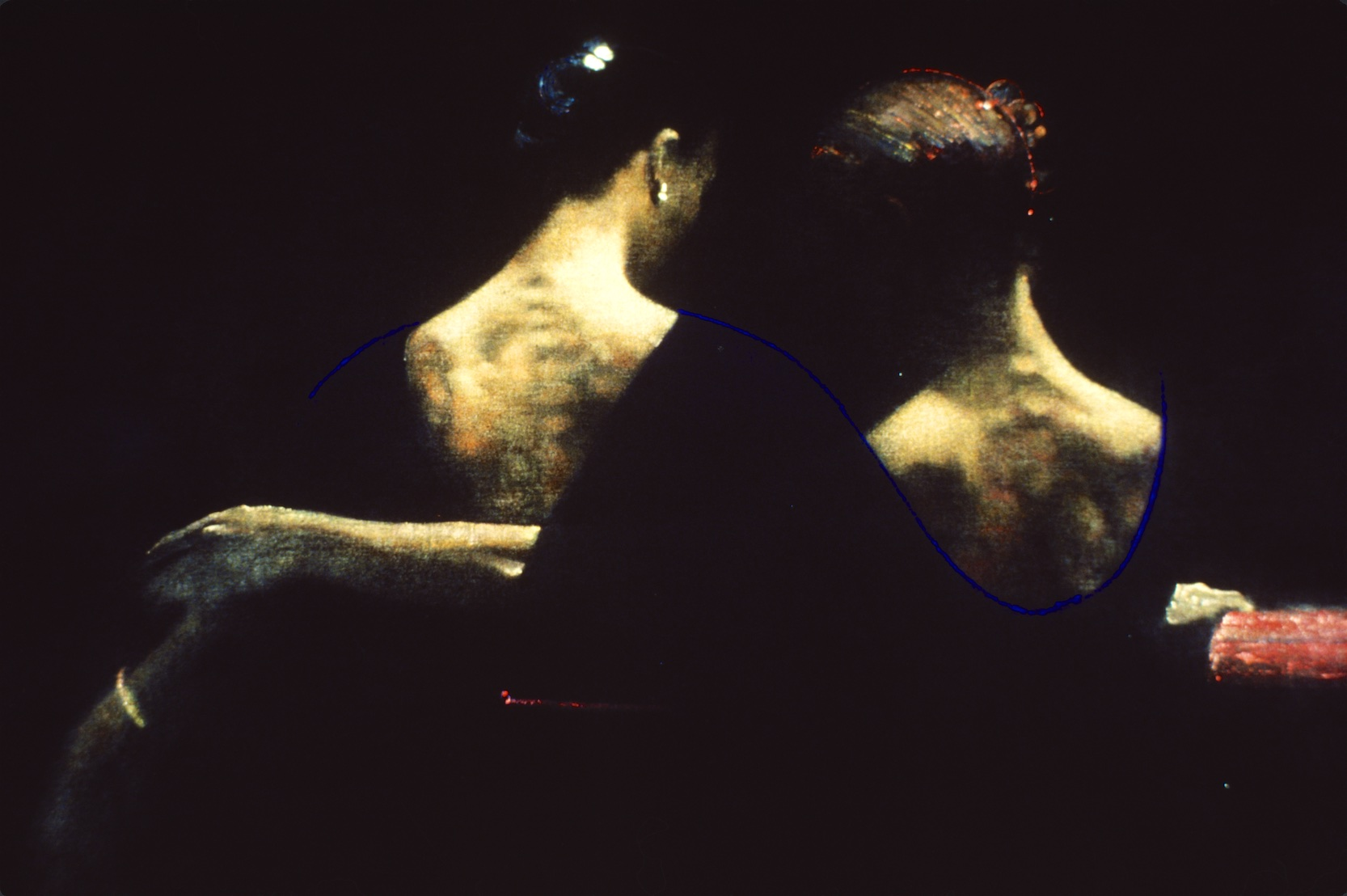 Painting of ballet dancers by Robert Heindel